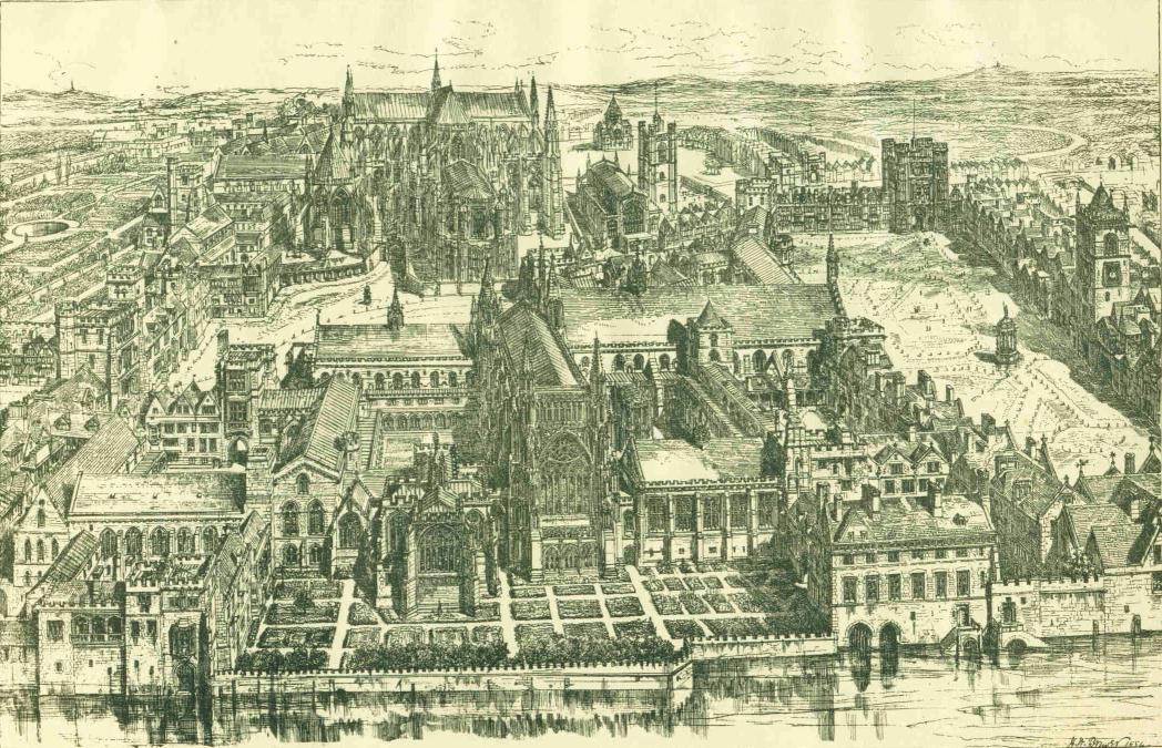 according to parliament.uk: A reconstructed perspective drawing by Brewer giving a detailed description of the Old Palace in the time of Henry VIII. Seen from the east, from the south entrance on the left to the clock tower in New Palace Yard on the right. Westminster Abbey, St Margaret's and the Holbein Gateway in the background. Published by The Builder magazine in 1884.